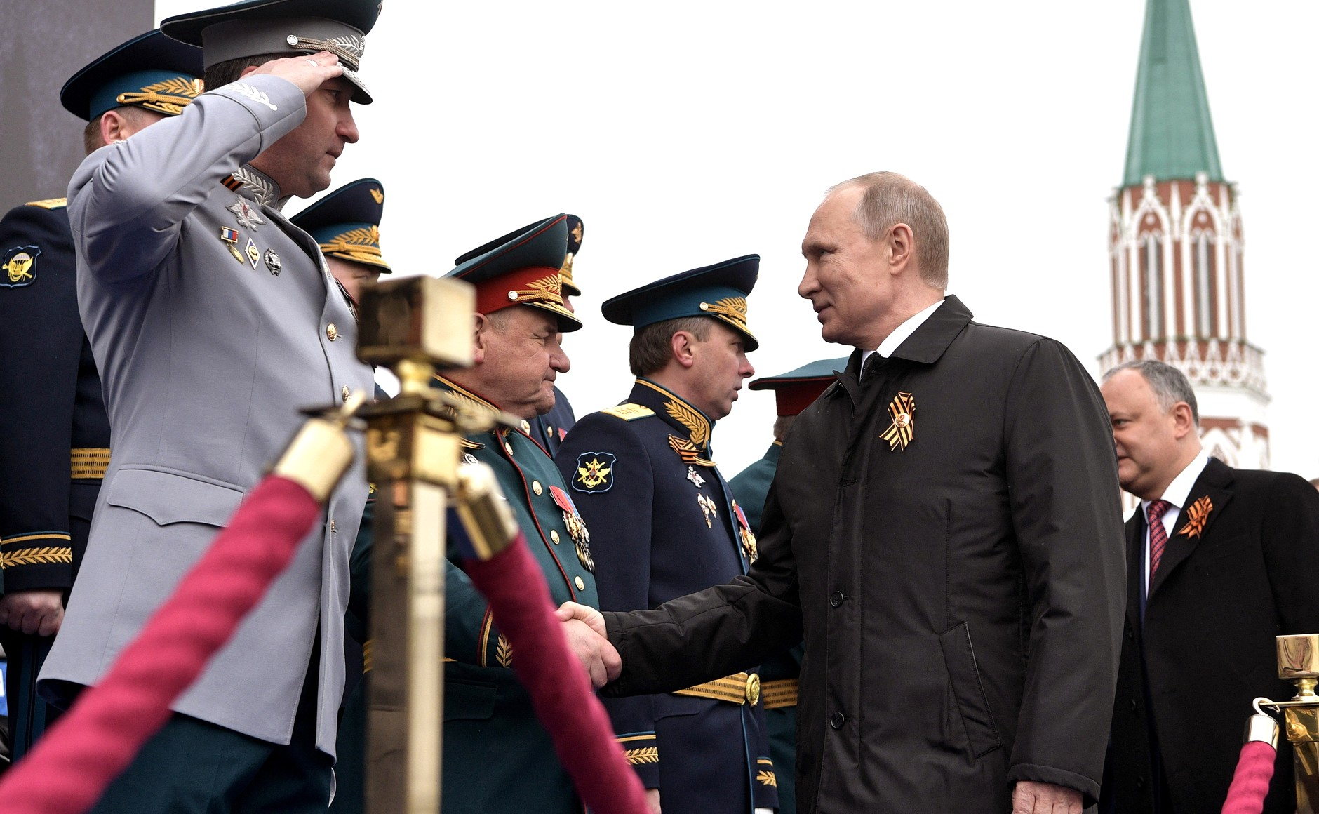 Military parade on Red Square 2017-05-09